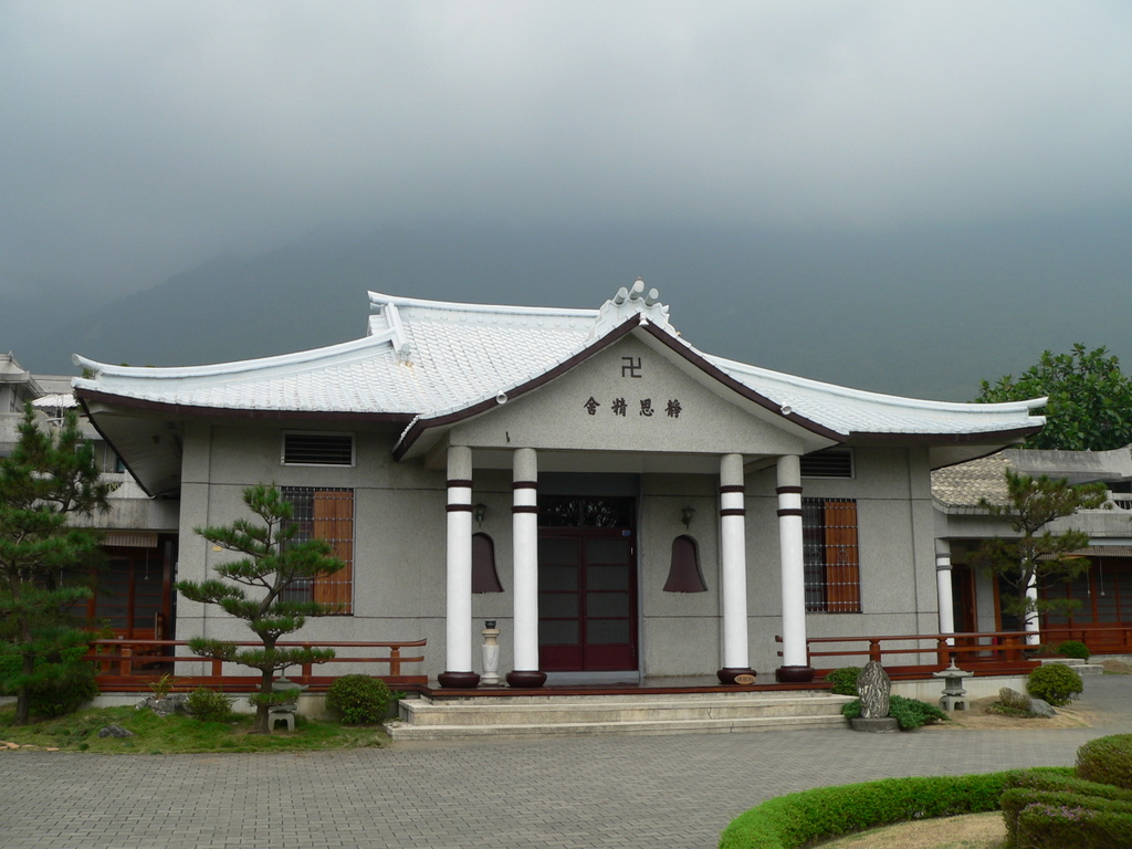 This is the spiritual home of the world-famous Tzu Chi Buddhist charity foundation.